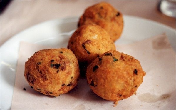 Bolinho de bacalhau, a mixture of potatoes, bacalhau (codfish), eggs, parsley, etc., formed into balls and deep fried.